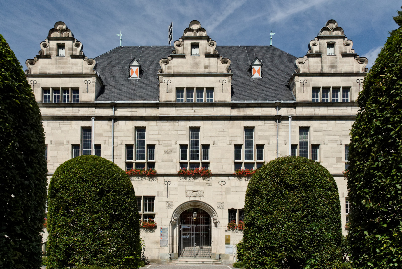 Rathaus Benrath, Benrodestraße 46 in Düsseldorf-Benrath, Germany This is a photograph of an architectural monument.